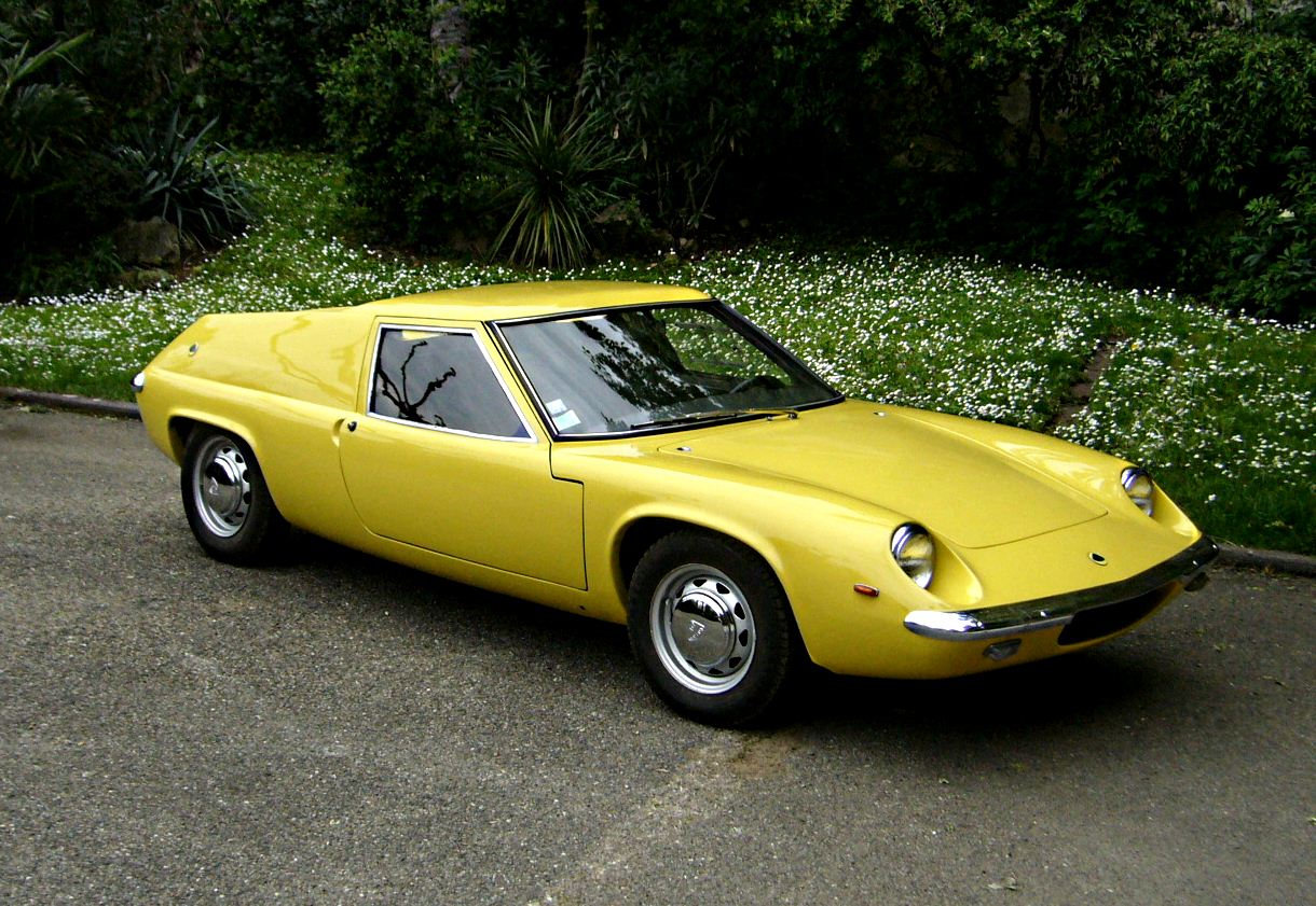 Lotus Europe first Series, 1967